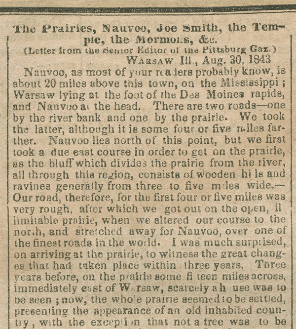 Top of newspaper column in the weekly edition of the September 29, 1843 New York [City] Express (a better known edition was known as the New York Evening Express) featuring a letter from senior editor of the Pittsburgh Gazette, which latter was owned/edited by David Nye White